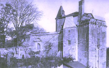 Castle of Sainte-Maure